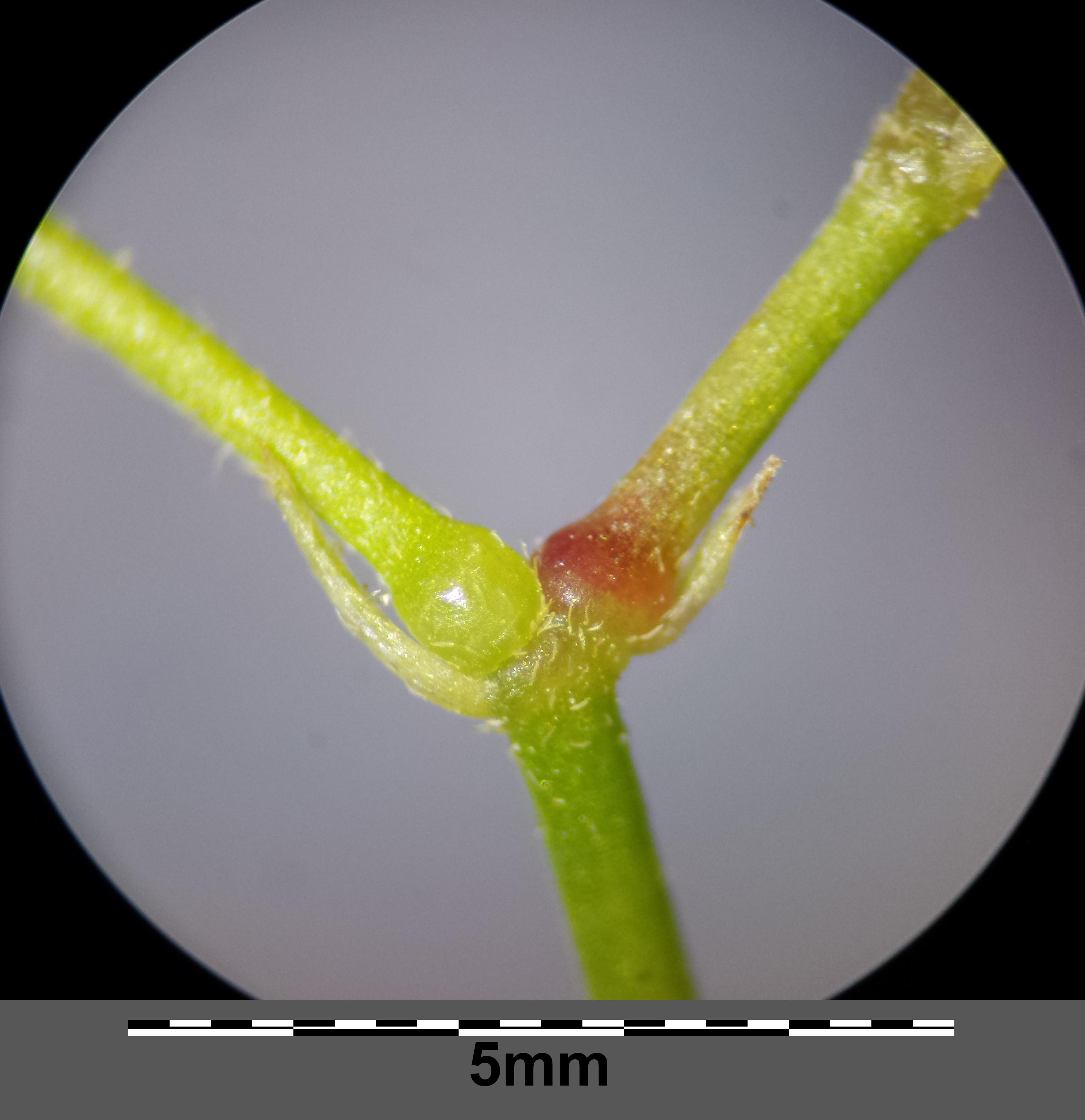 Fruit stalks with knotty joints Taxonym: Oxalis stricta ss Fischer et al. EfÖLS 2008 ISBN 978-3-85474-187-9 Location: to the south of Schleinbach, district Mistelbach, Lower Austria - ca. 275 m a.s.l. Habitat: sand pit